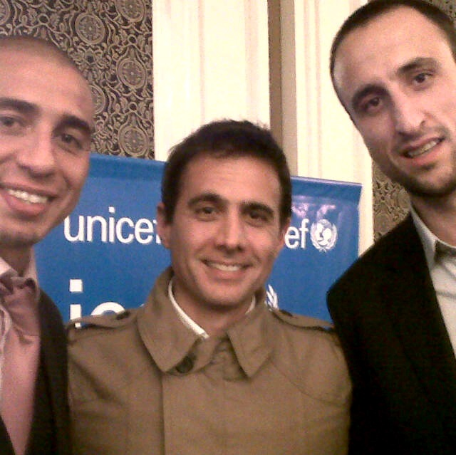 Argentine journalist Nicolás Hueto with Emanuel Ginóbili and David Trezeguet